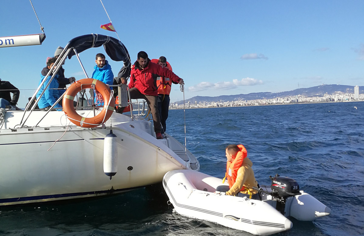 sailing boat property of Escola Port